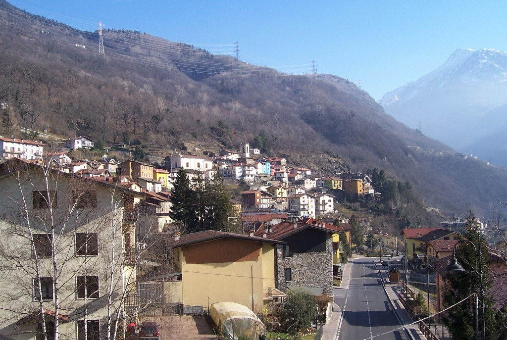 Demo, Valle Camonica